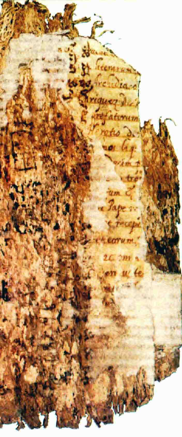 Madrid codex, page 2.